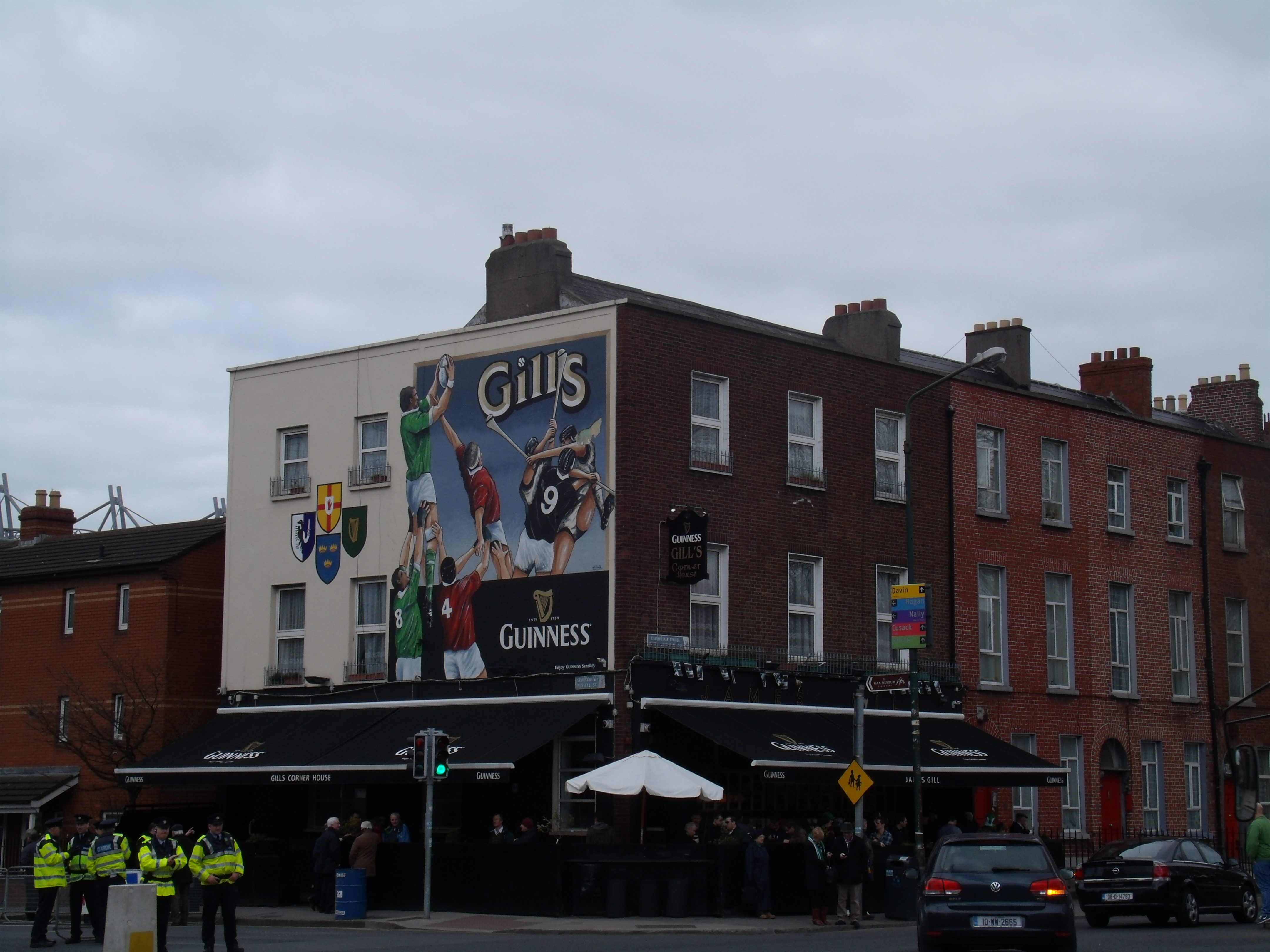 Gill's pub, Dublin